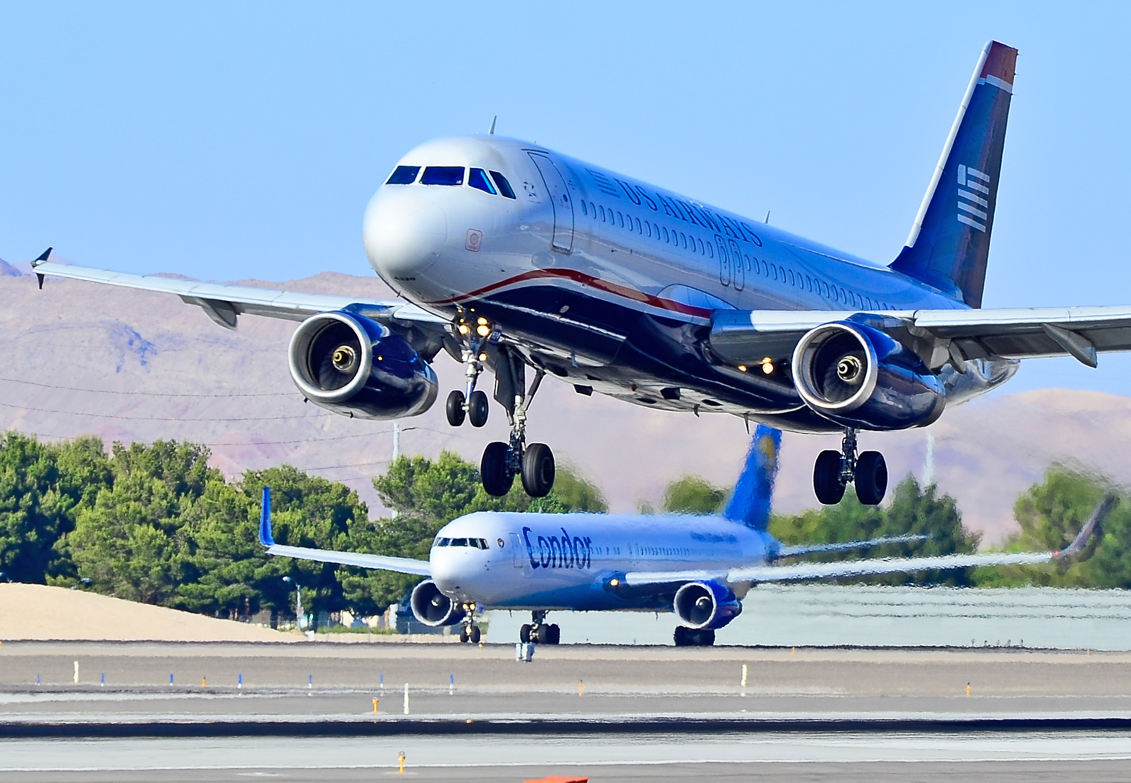 D-ABUC Condor (Thomas Cook) Boeing 767-330/ER (cn 26992/470) - Las Vegas - McCarran International (LAS / KLAS) USA - Nevada, June 5, 2012 Photo: Tomás Del Coro